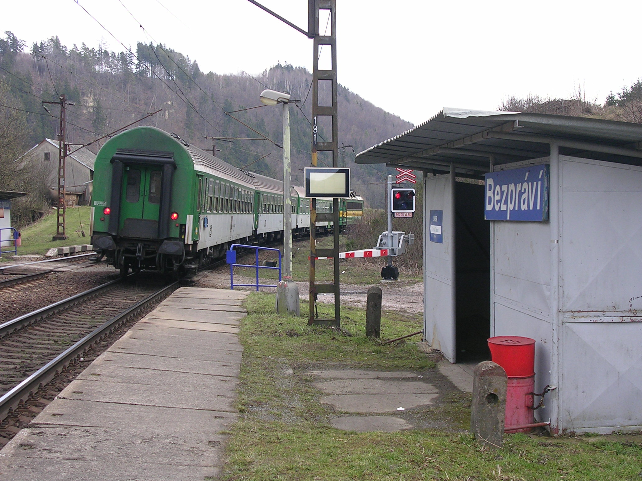 Bezpráví, Orlické Podhůří, the Czech Republic.